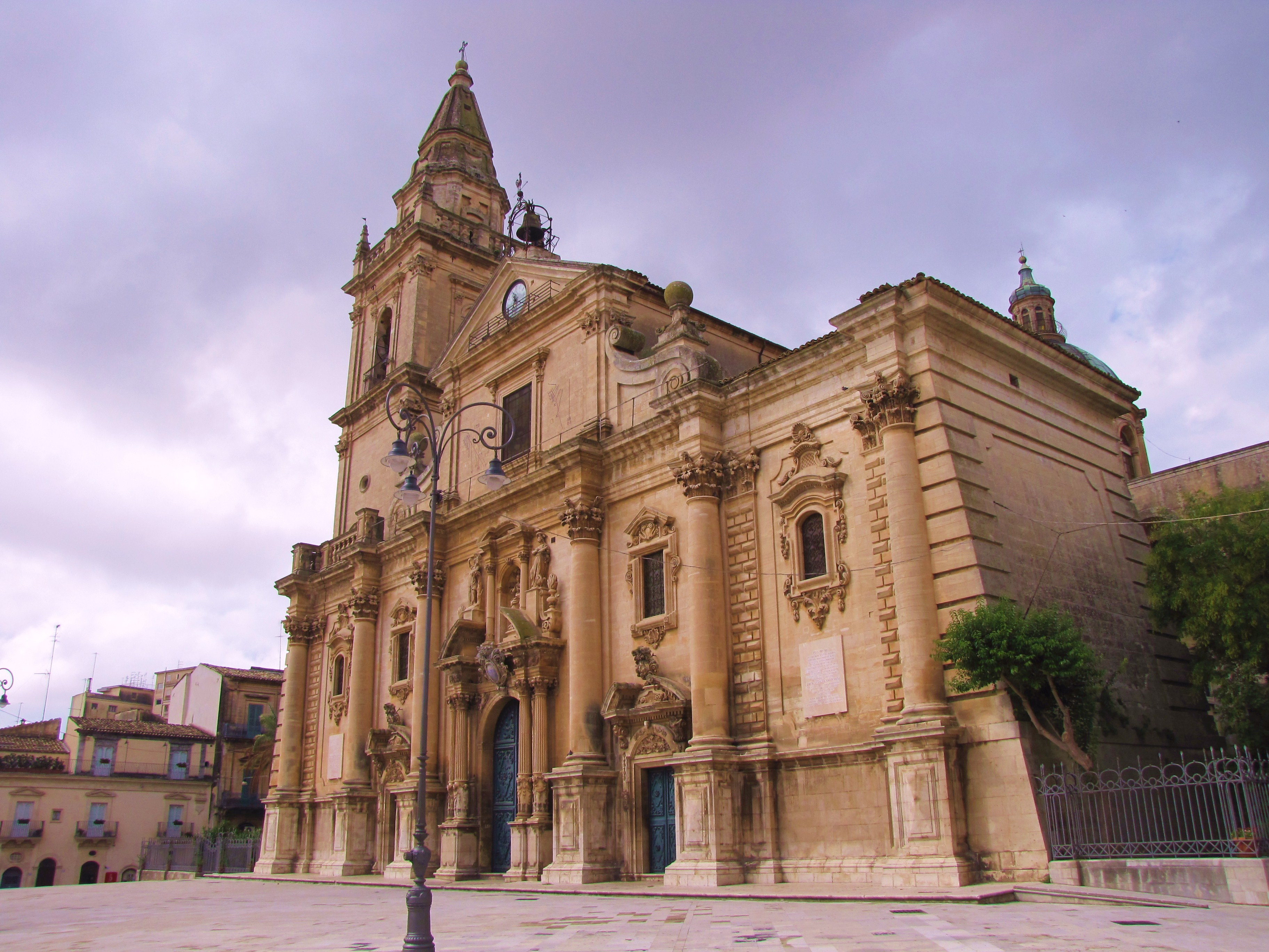 Cathedral of St. John in Ragusa, Sicily, Italy